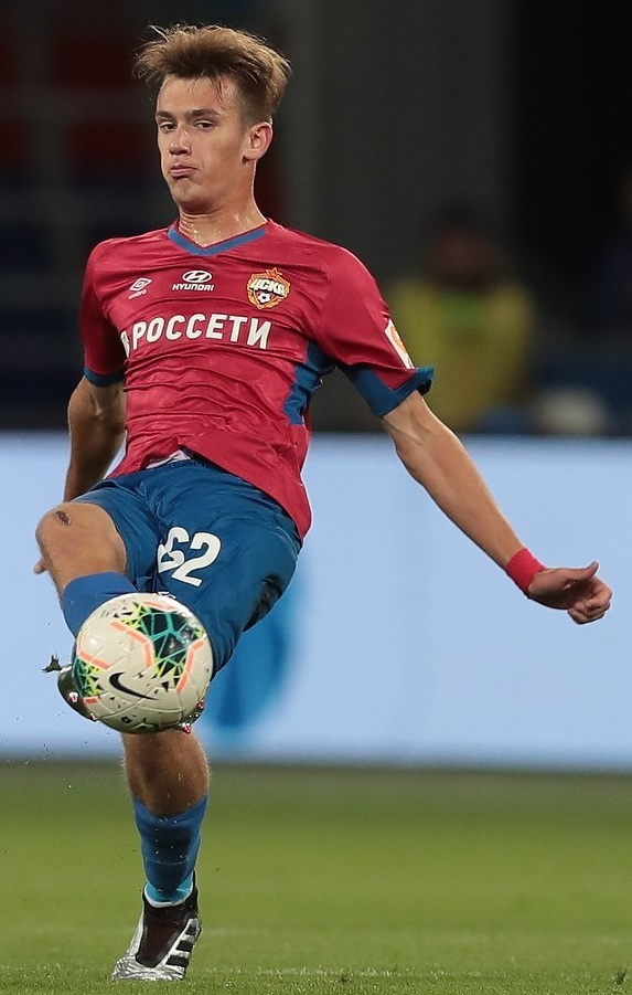 Vadim Karpov with PFC CSKA Moscow in a game against FC Krasnodar.